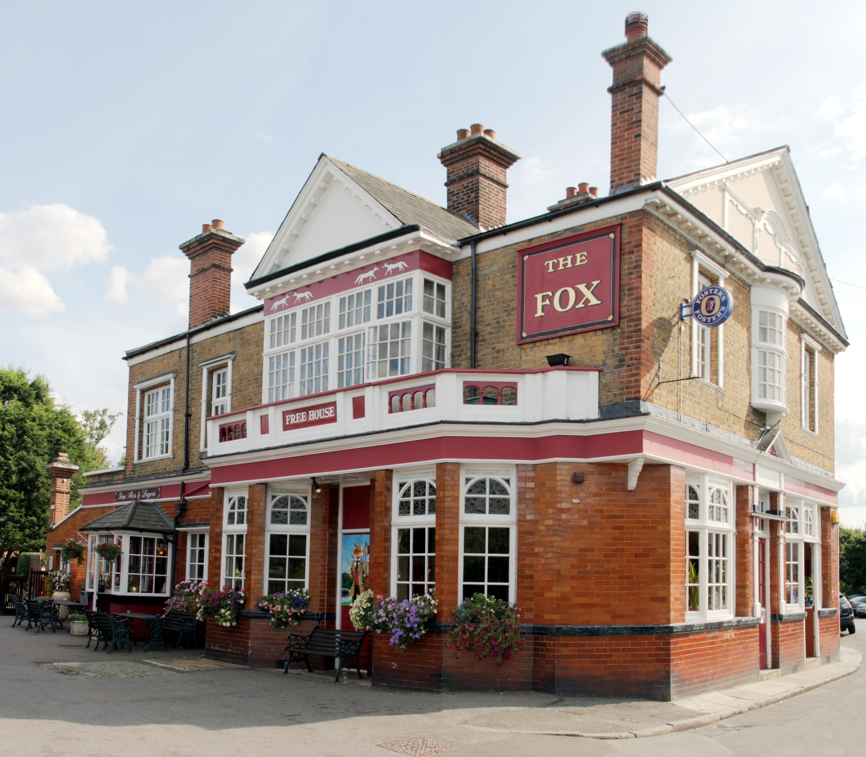 The Fox -Hanwell W7 The Fox Public House, Green Lane, Hanwell, London, W7 2PJ. It has received a 'local listing' from Ealing Council as a building of local interest. Built in 1848. Constructed out of the local yellow brick with more expensive red bricks used for detailing on the corners and chimneys. Glazed bricks are used for the ground floor exterior walls with coloured stained glass in the fan lights. The upper story has mock Tudor detailing including dentiles on the two outward facing gables. Much of the interior is original, although the dividing walls between bars and office licence sales have been taken out to create one large bar area. It was the meeting place for the local fox hunt right up until the early 1900s. The hunt would then set of across Hanwell Heath, much of which still existed at that time.